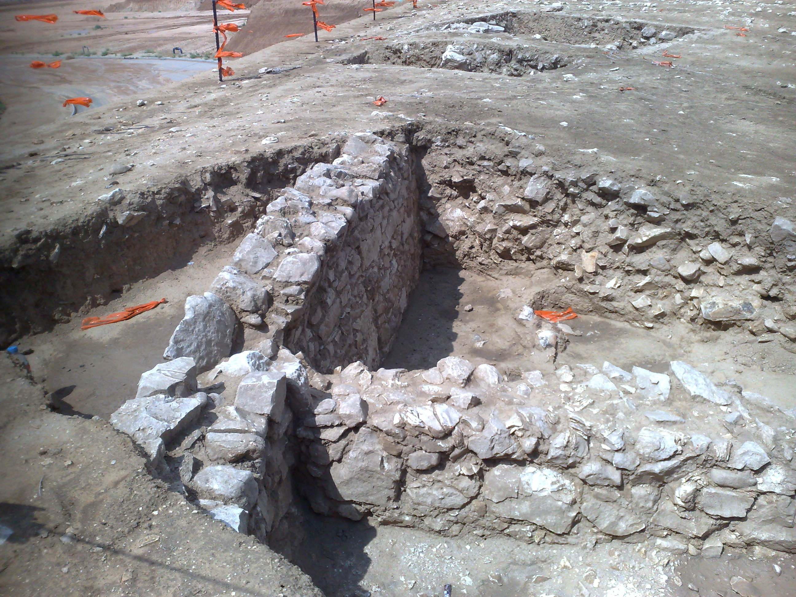 photo taken by me in rahat city, soda plant area, on hill, in archaeological site back to 1700 years ago, the photo shows stone walls were carrying the roof of archaeological building which is 200 meters length and 50 meters buried under the soil.